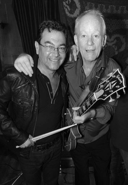 Moss and Fleetwood Mac guitarist, Bob Weston were joined by 'Spring Heeled Jack' for a blues night jamming session at Bar Solo, London.